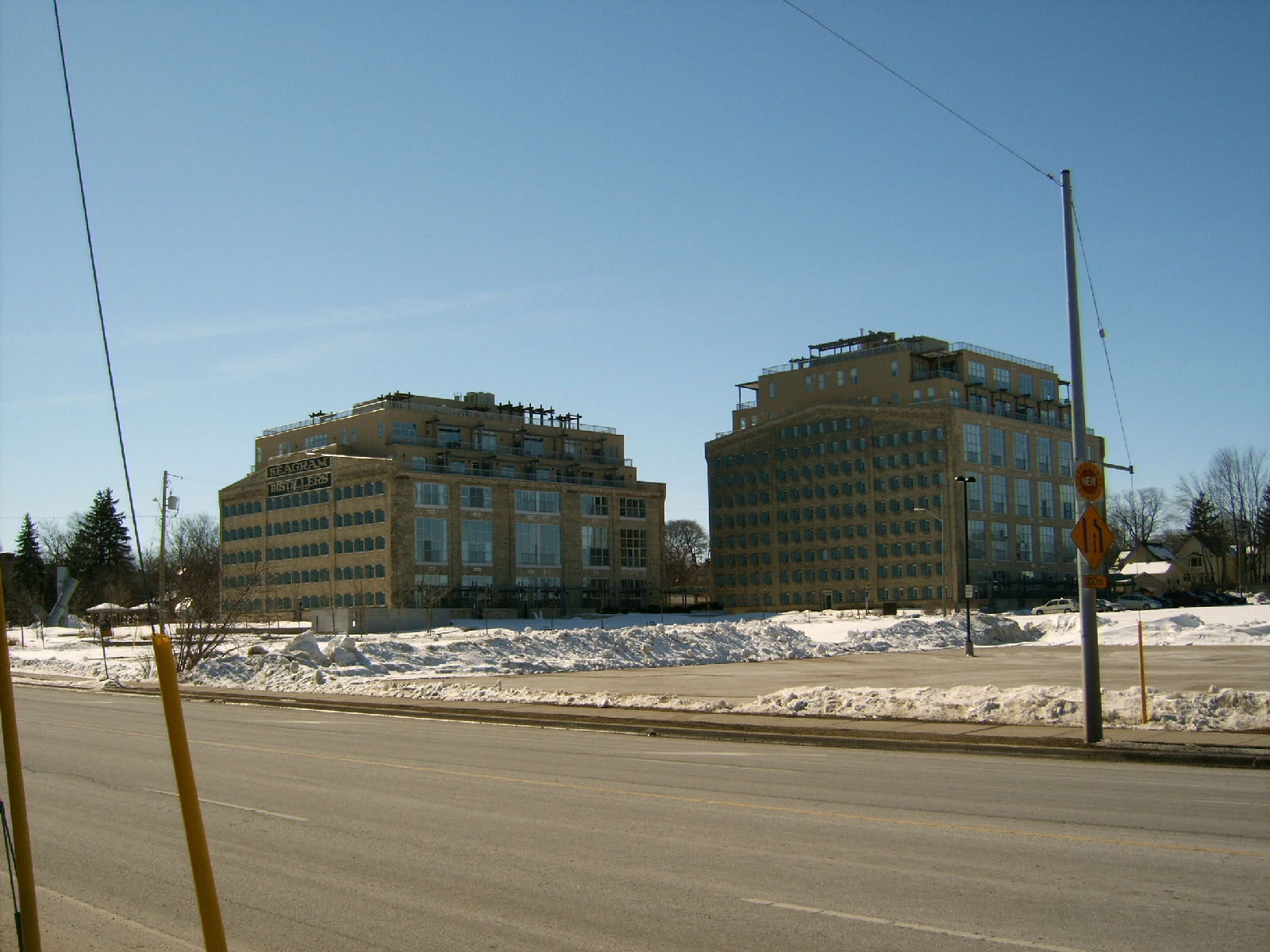 Waterloo Ontario, Seagram Distillers